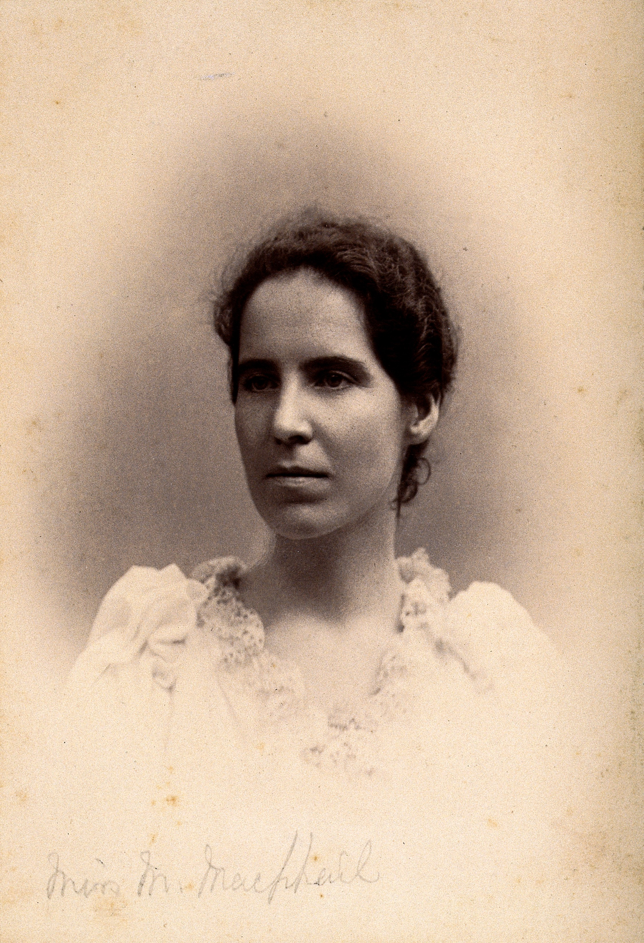 Matilda MacPhail. Photograph by Fréd Ahrlé & Co. Iconographic Collections Keywords: portrait photographs